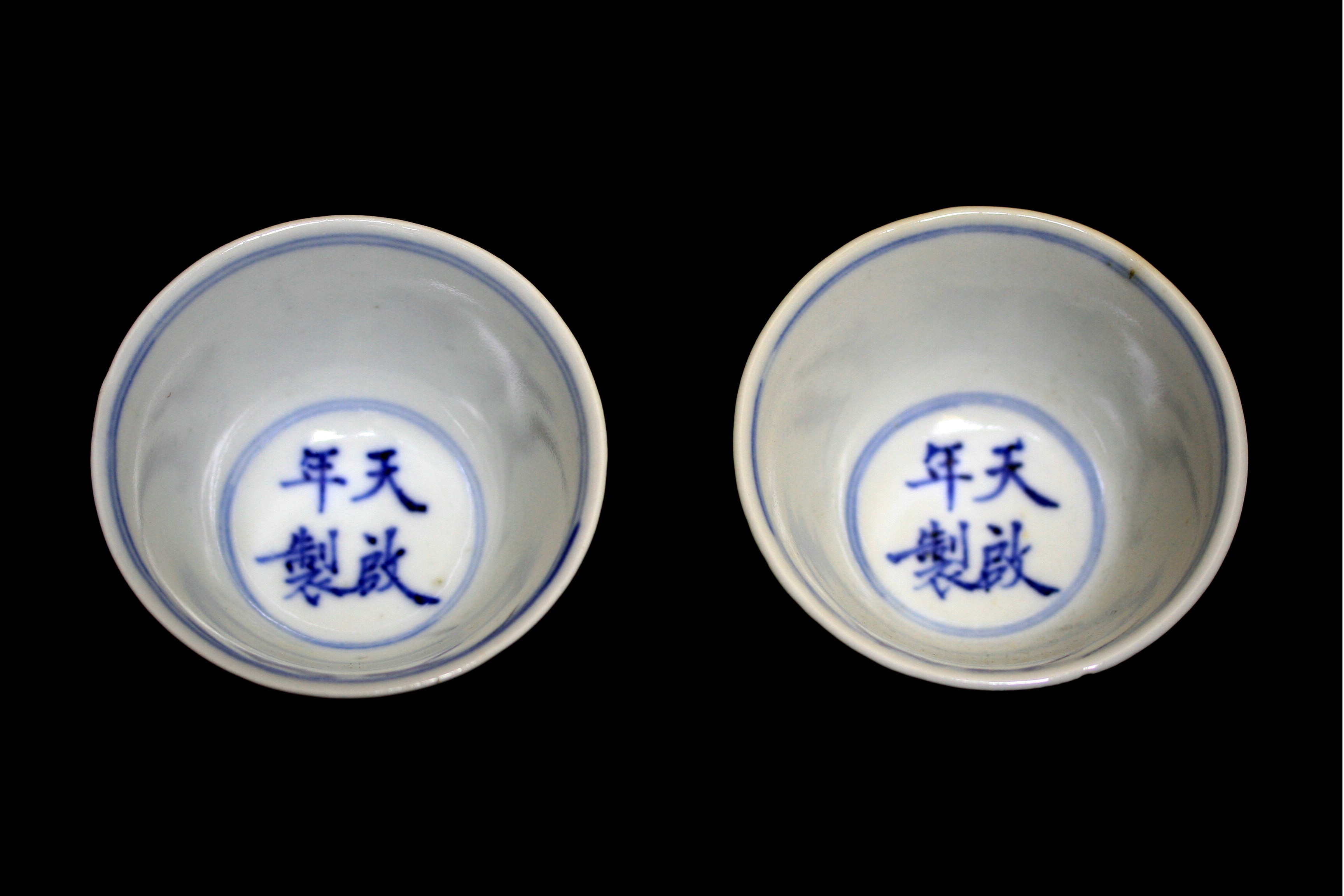 Porcelain tea cups from the reign of the Tianqi Emperor (r. 1620–1627) during the Ming Dynasty of China.